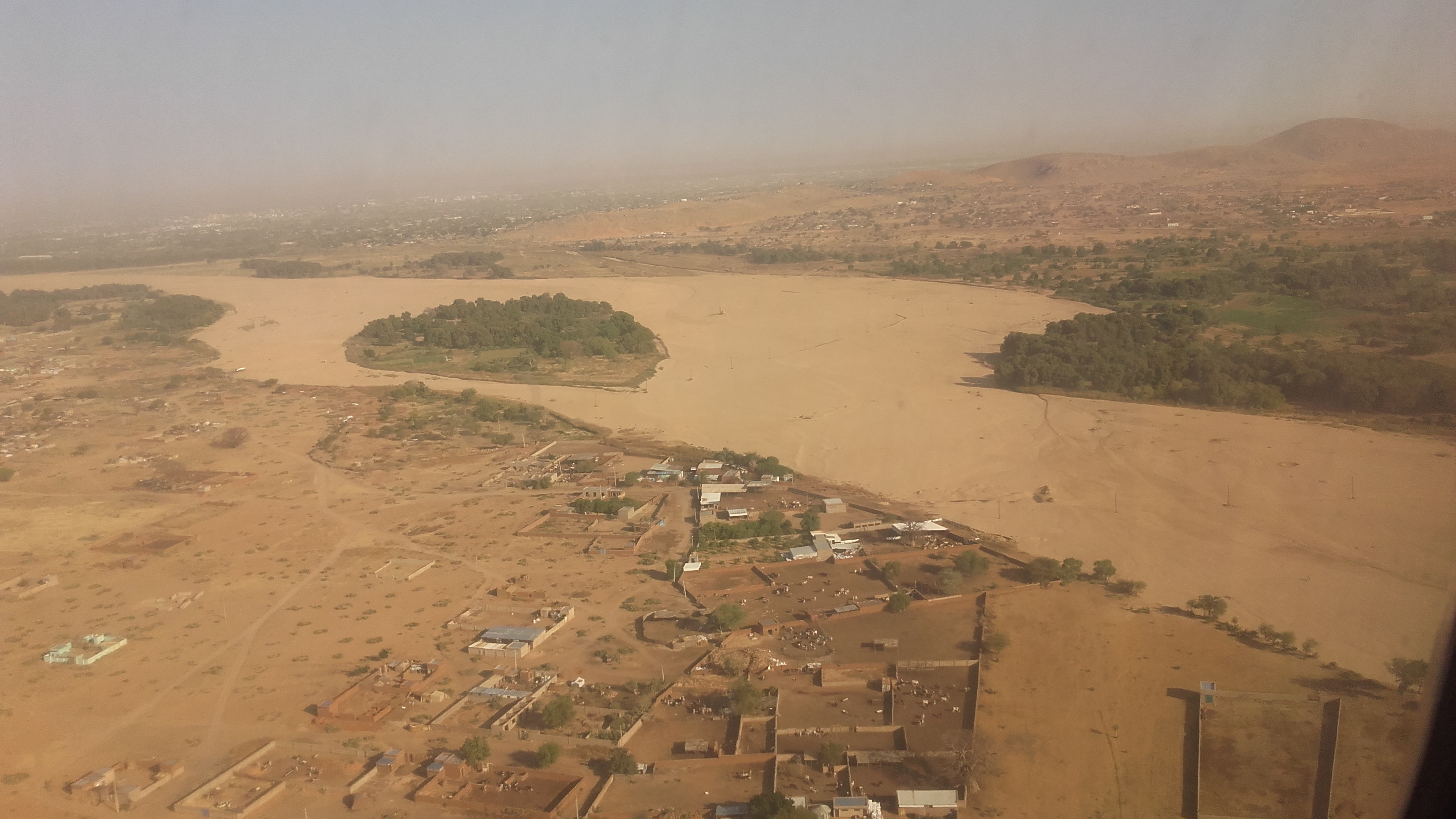 valley from Nyala This is an image with the theme "Africa on the Move or Transport" from: Sudan